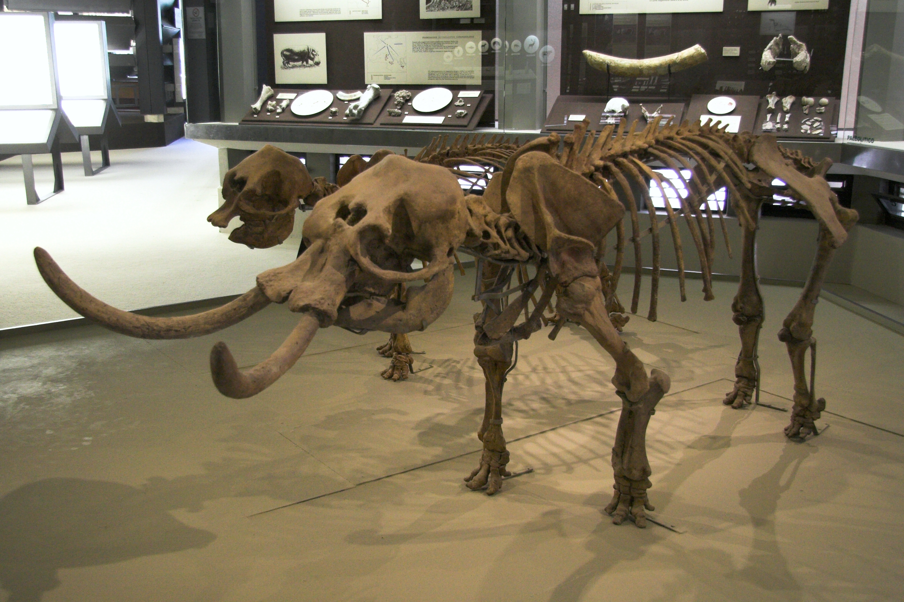 Pair of Sicilian elephants. Skeletons of Elephas Falconeri (Palaeoloxodon). Found in Grotta Spinagallo, Syracuse, Sicily. Archaeological Museum of Syracuse.